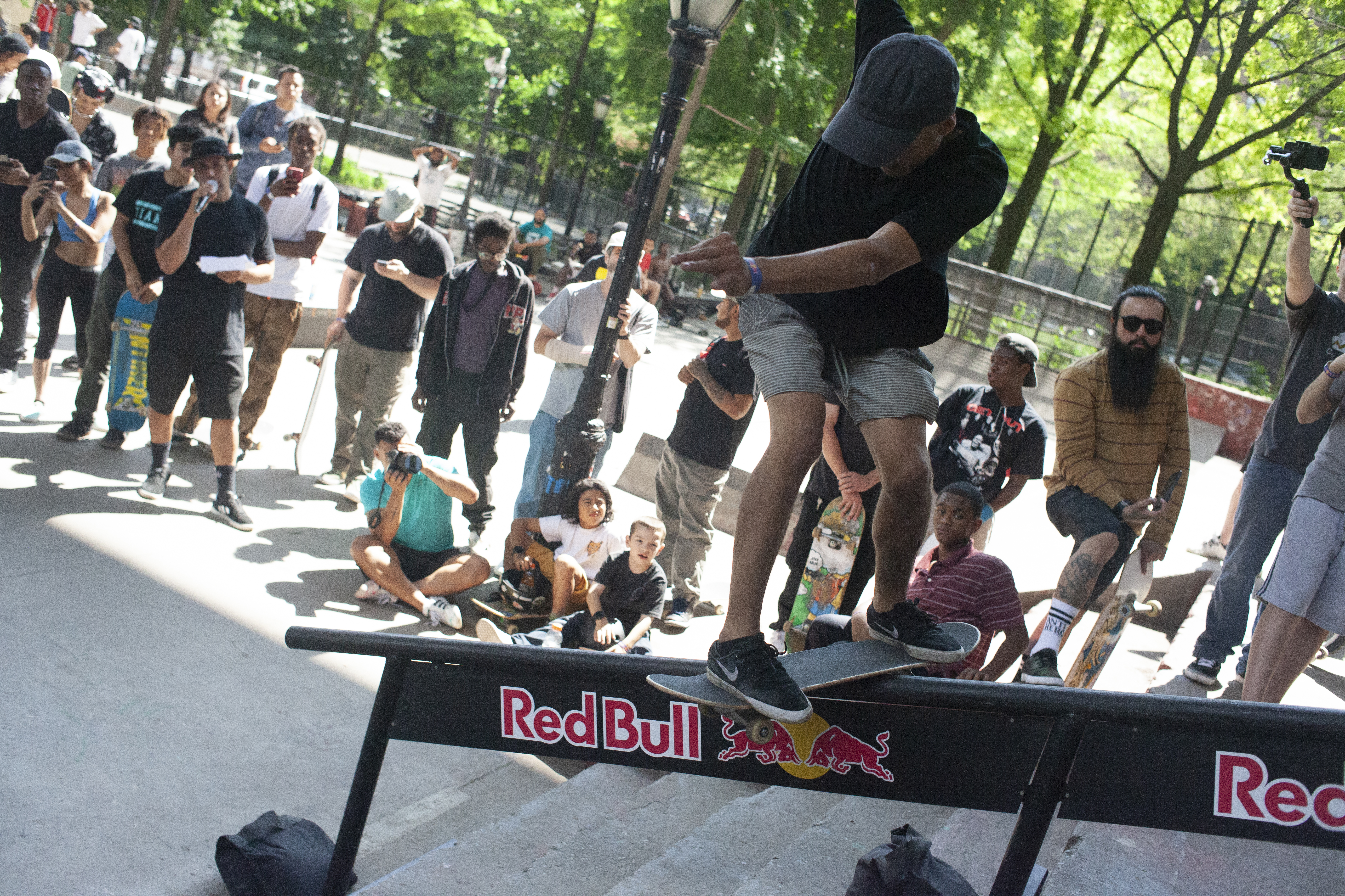 Starlin Polanco nails a backside lipslide down the Red Bull rail at LES skatepark during the best trick contest. Spectators, including the MC Steve Rodriguez, look on.